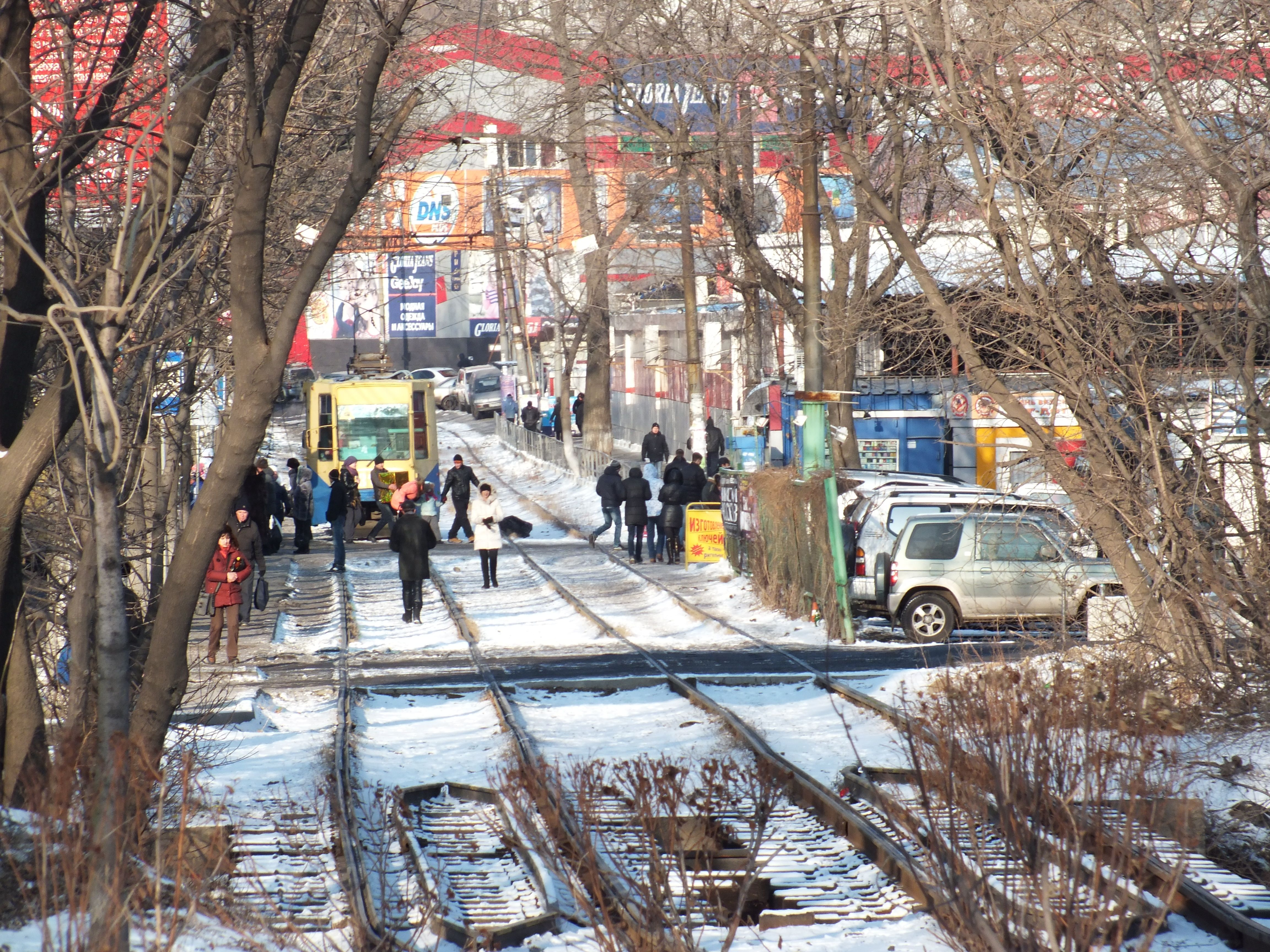 Trams in Vladivostok